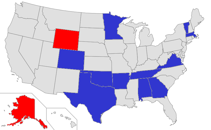 Purple: Democratic and Republican Primaries and Caucuses Red: Republican only